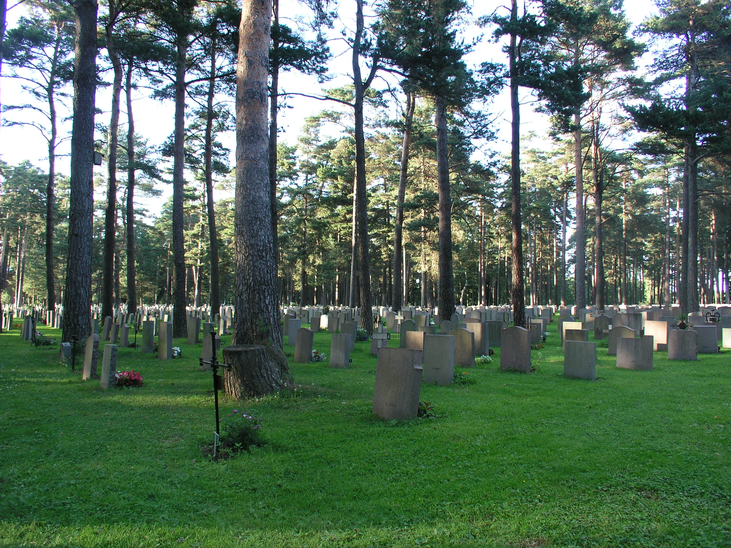 Skogskyrkogården, older part.